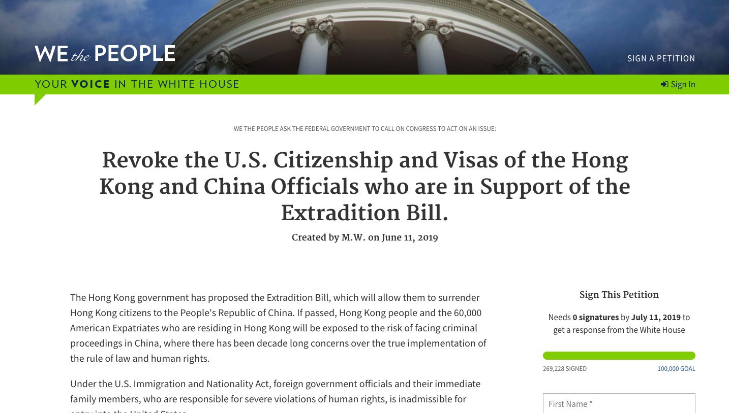 One of the many petitions related to the Hong Kong Extradition Bill.This is to revoke the U.S. Citizenship and Visas of the Hong Kong and China Officials who are in Support of the Extradition Bill.